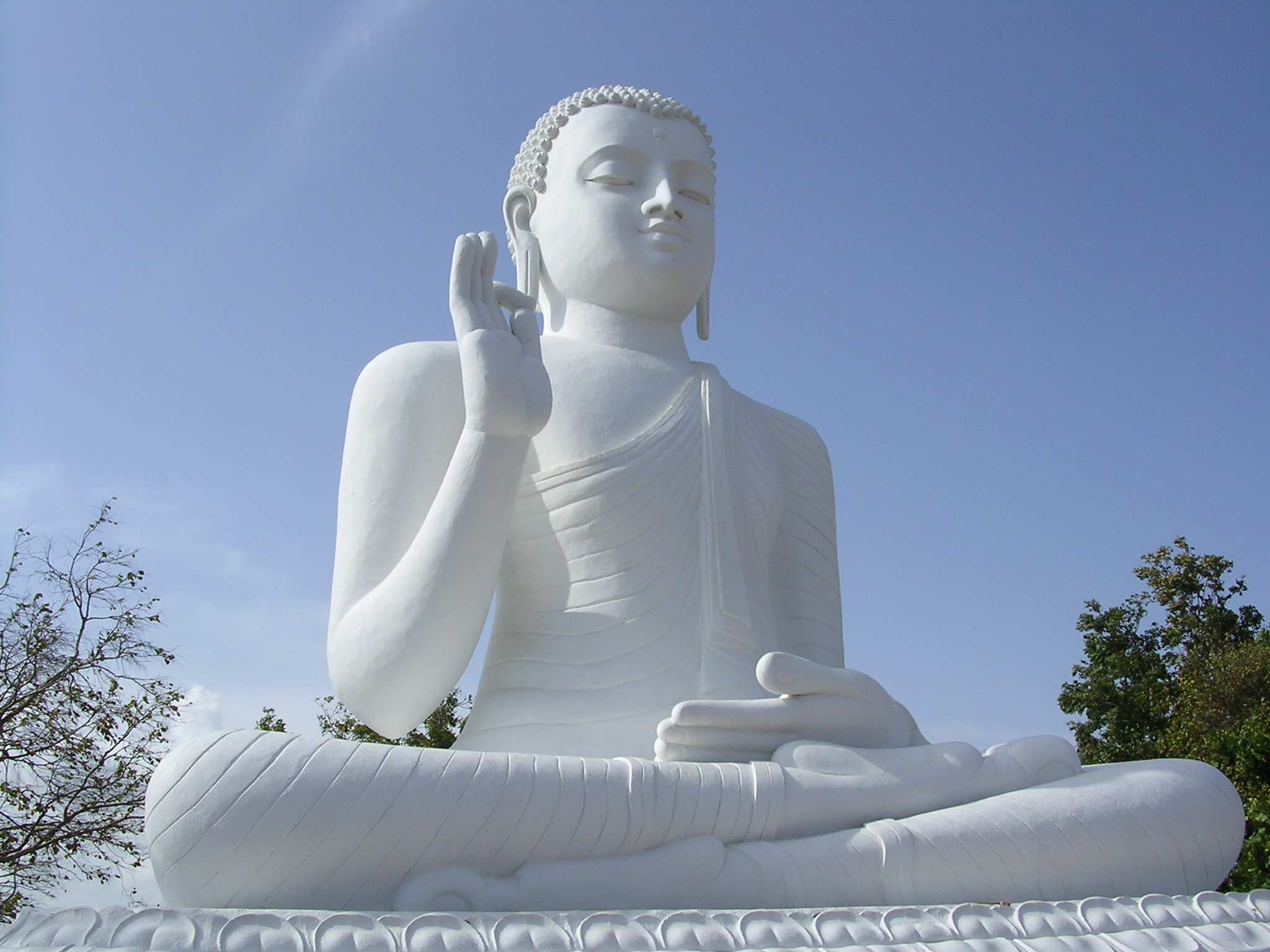 Statue of The Buddha at Mihintale, Sri Lanka Adding By:K.Ragularajan